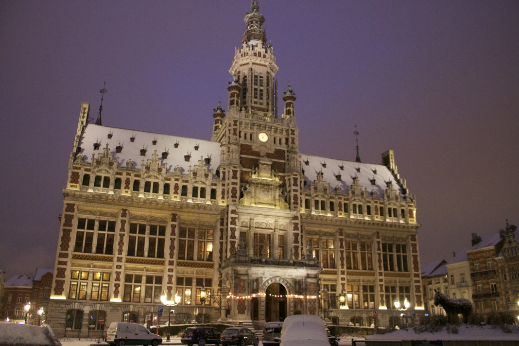 The Schaerbeek Town Hall under snow